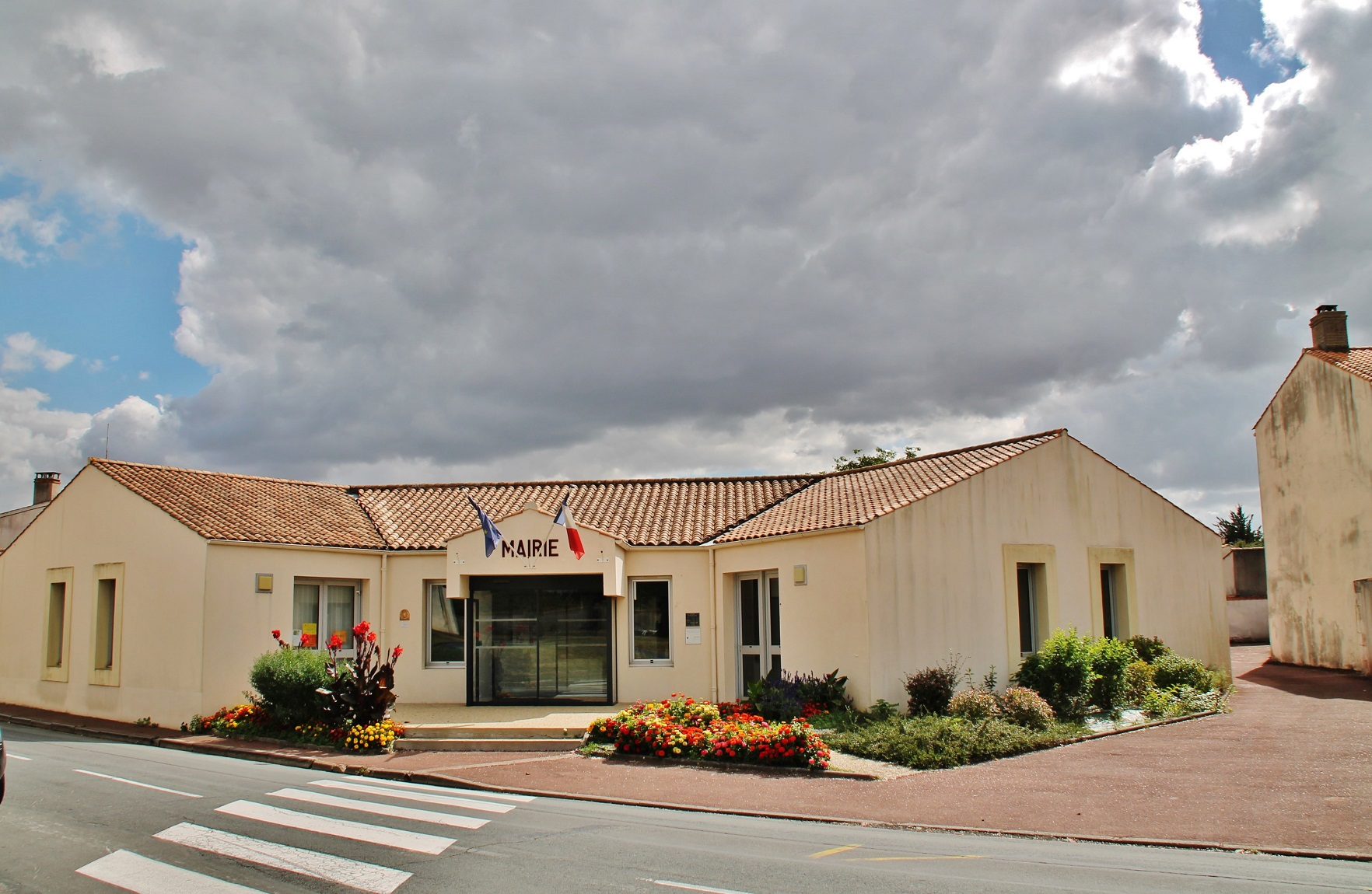 La Mairie